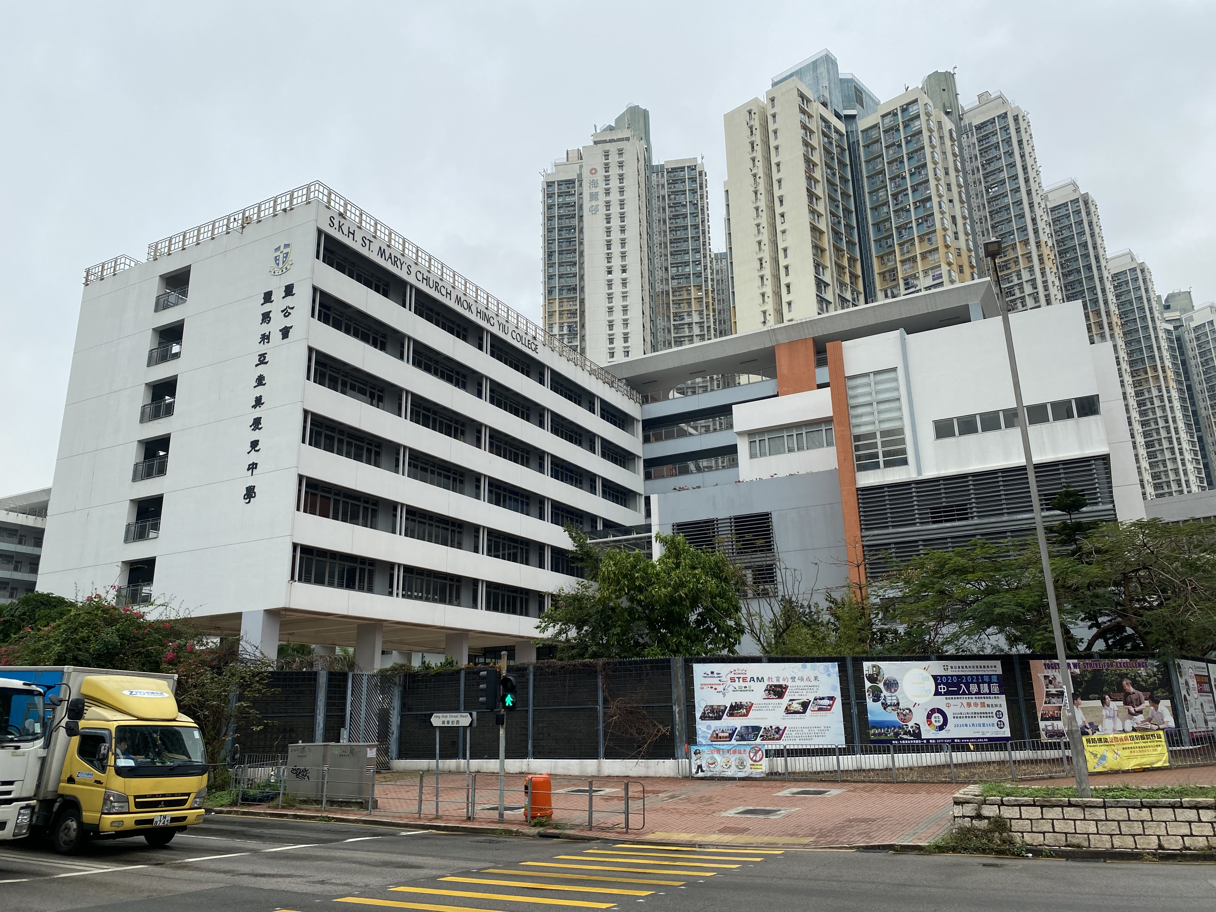 中文（香港）: This photo is taken in Hoi Lai.